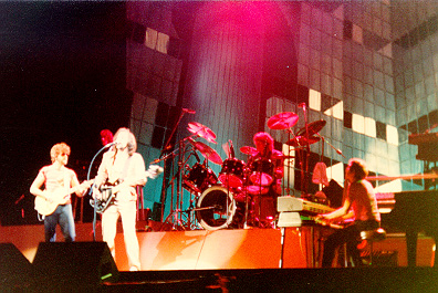 Electric Light Orchestra in concert, Time Tour, 1981 or 1982.